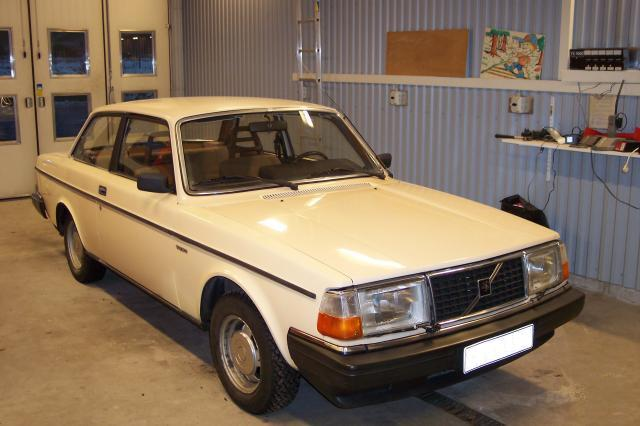 Volvo 242 DL, MY 1983. Scandinavian specification.